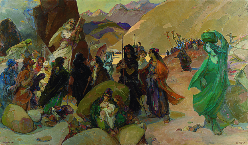 Painting of Moshe Rosenthalis.